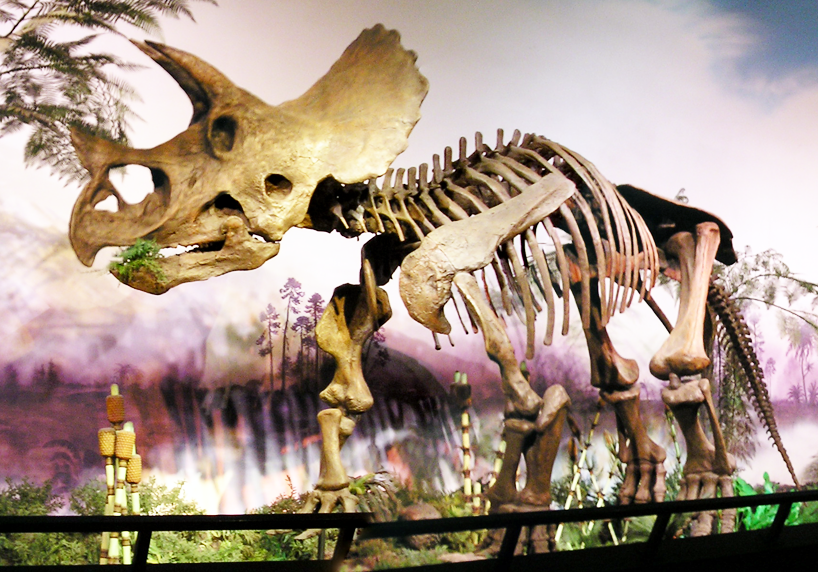 Dinosaur skeletons (Triceratops) on display in the final room of the old Dinosaur Gallery at the Royal Ontario Museum, Toronto. Picture taken on the final day the gallery was open, September 1, 2005.